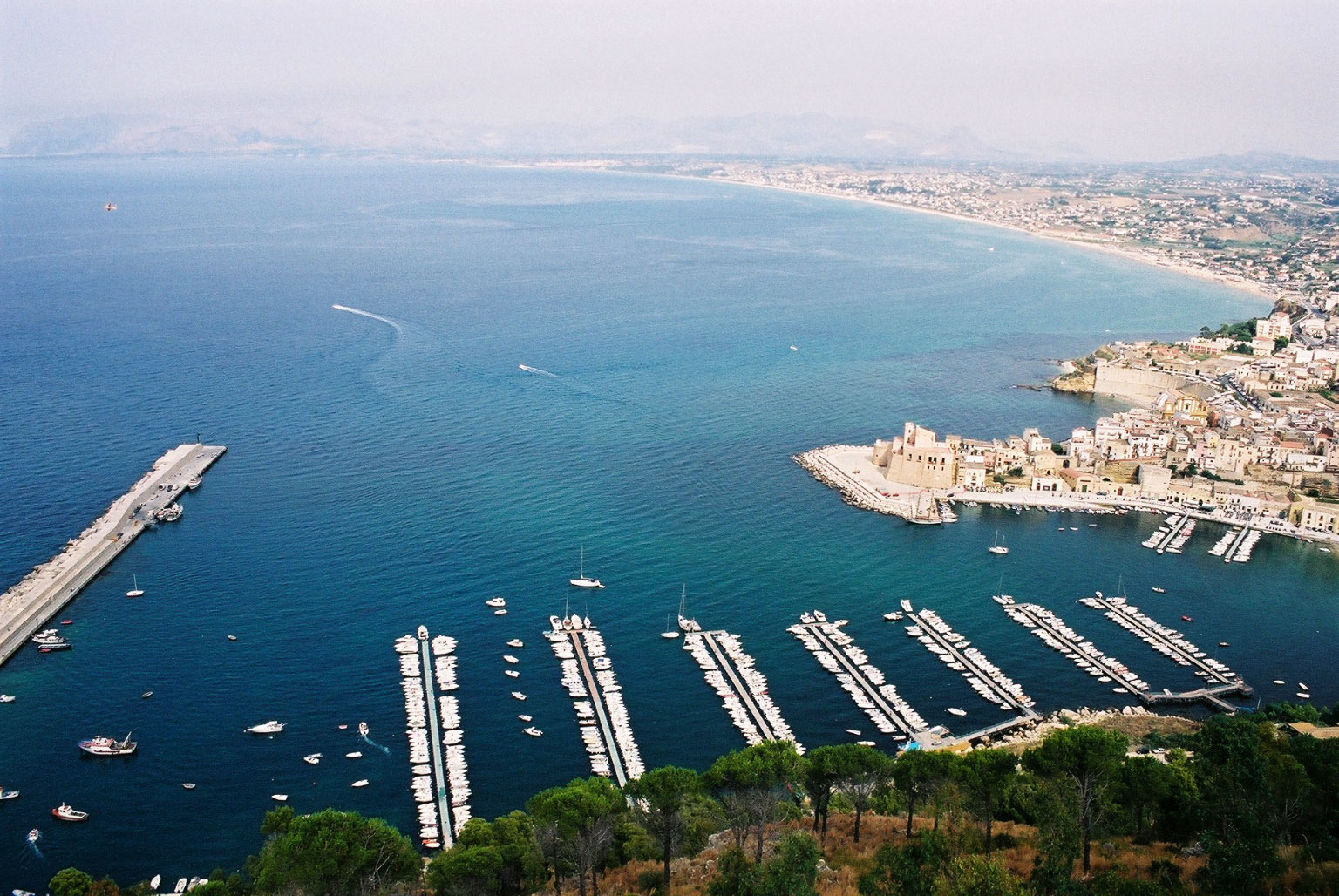 Castellammare del Golfo View over the Golf of Castellammare